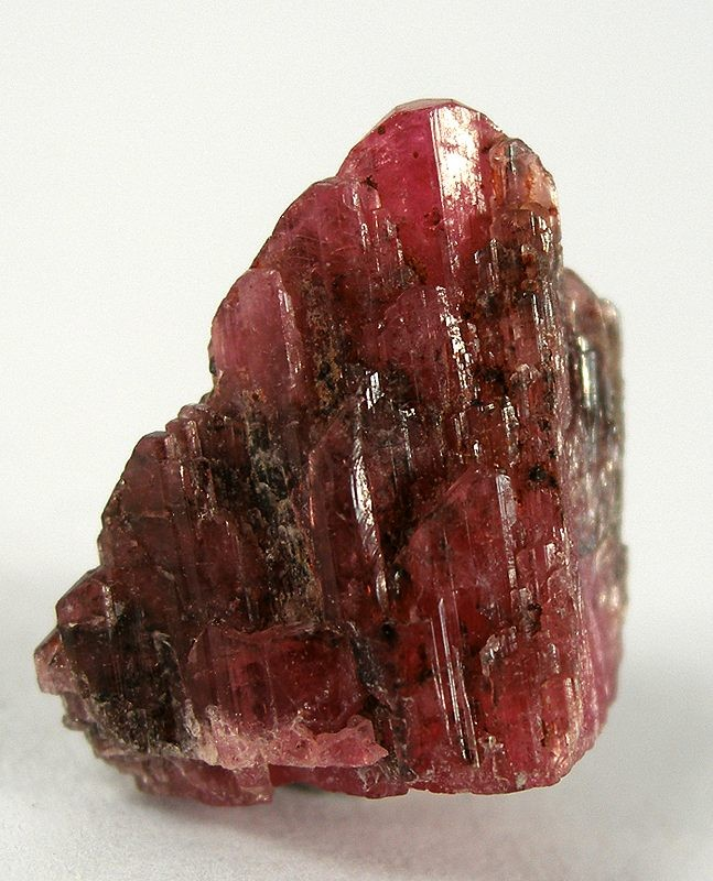 Väyrynenite Locality: Paprok, Nuristan Province (Nurestan; Nooristan), Afghanistan (Locality at ) Size: 1.7 x 1.4 x 0.6 cm. A rather large, unusually robust crystal of this very rare species which seems to be trickling out of Afghanistan a few per year.